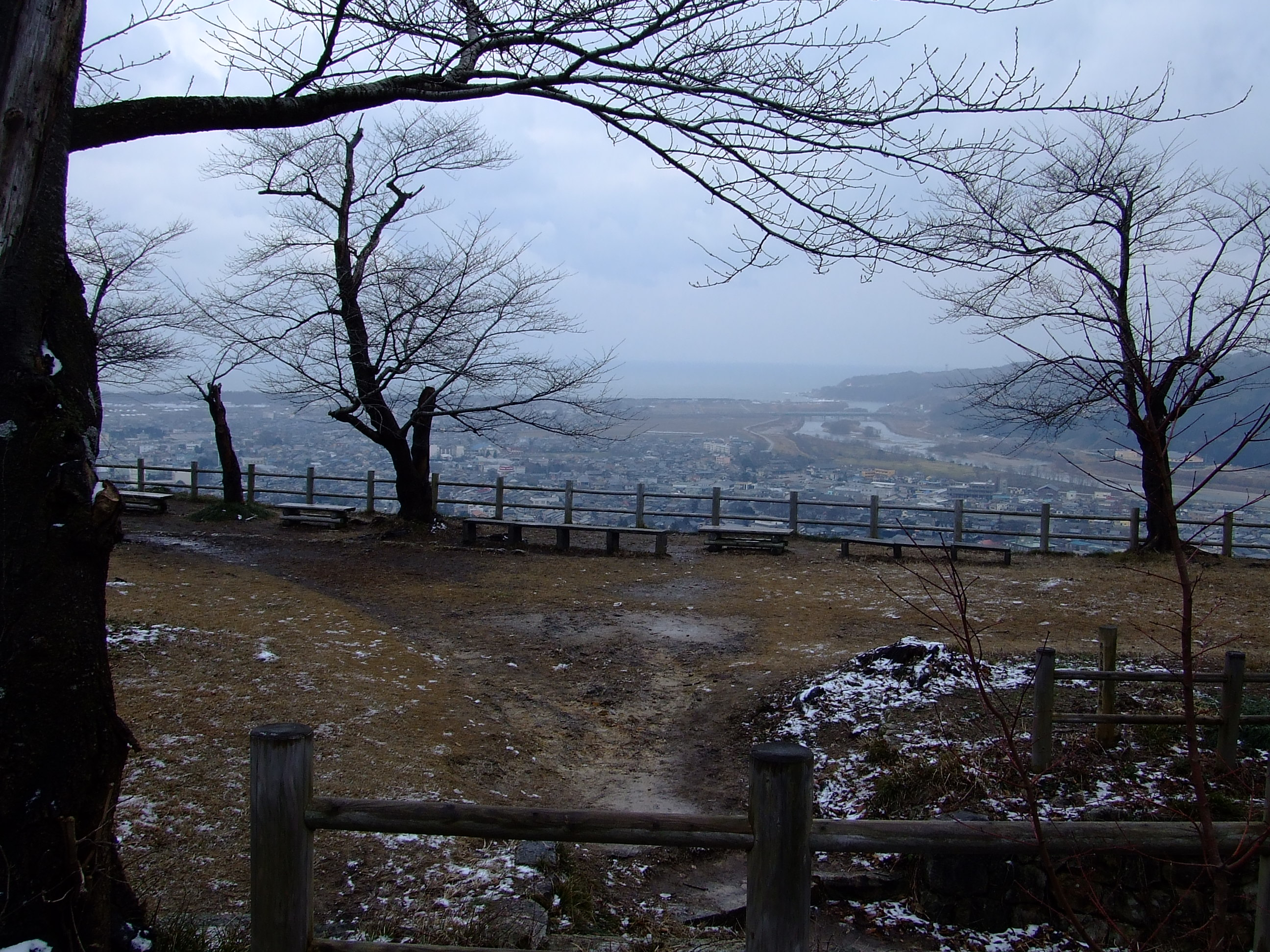 Murakami City, as seen from the castle ruins. Niigata Prefecture, Japan. I took this photo with a digital camera on 12th February 2007.